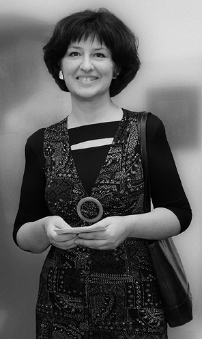 Joanna Maria Rybczynska - polish artist photographer and painter, August 2009